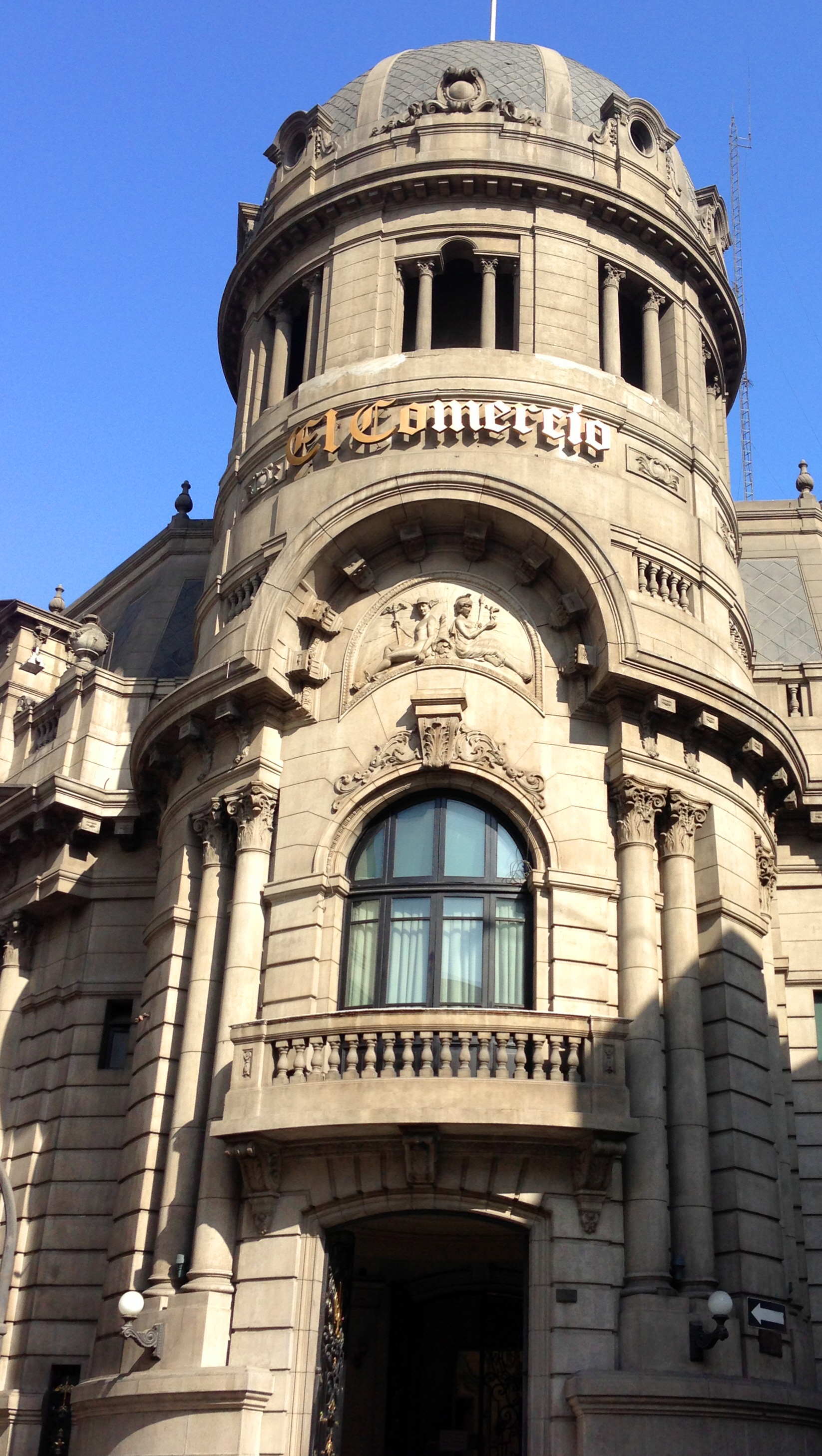 Lima, Peru el comercio building.